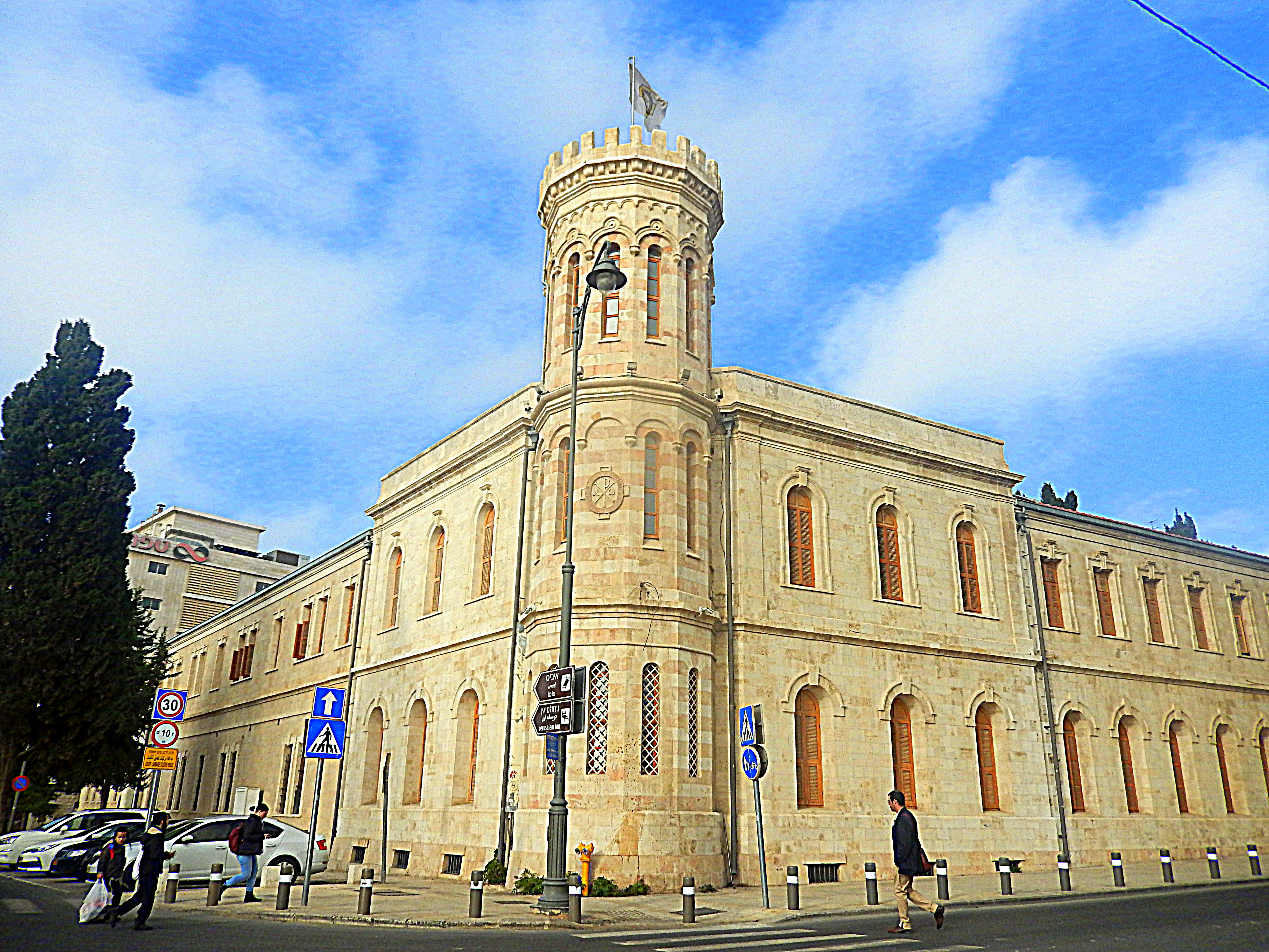 Russian Compound, Sergei's Court